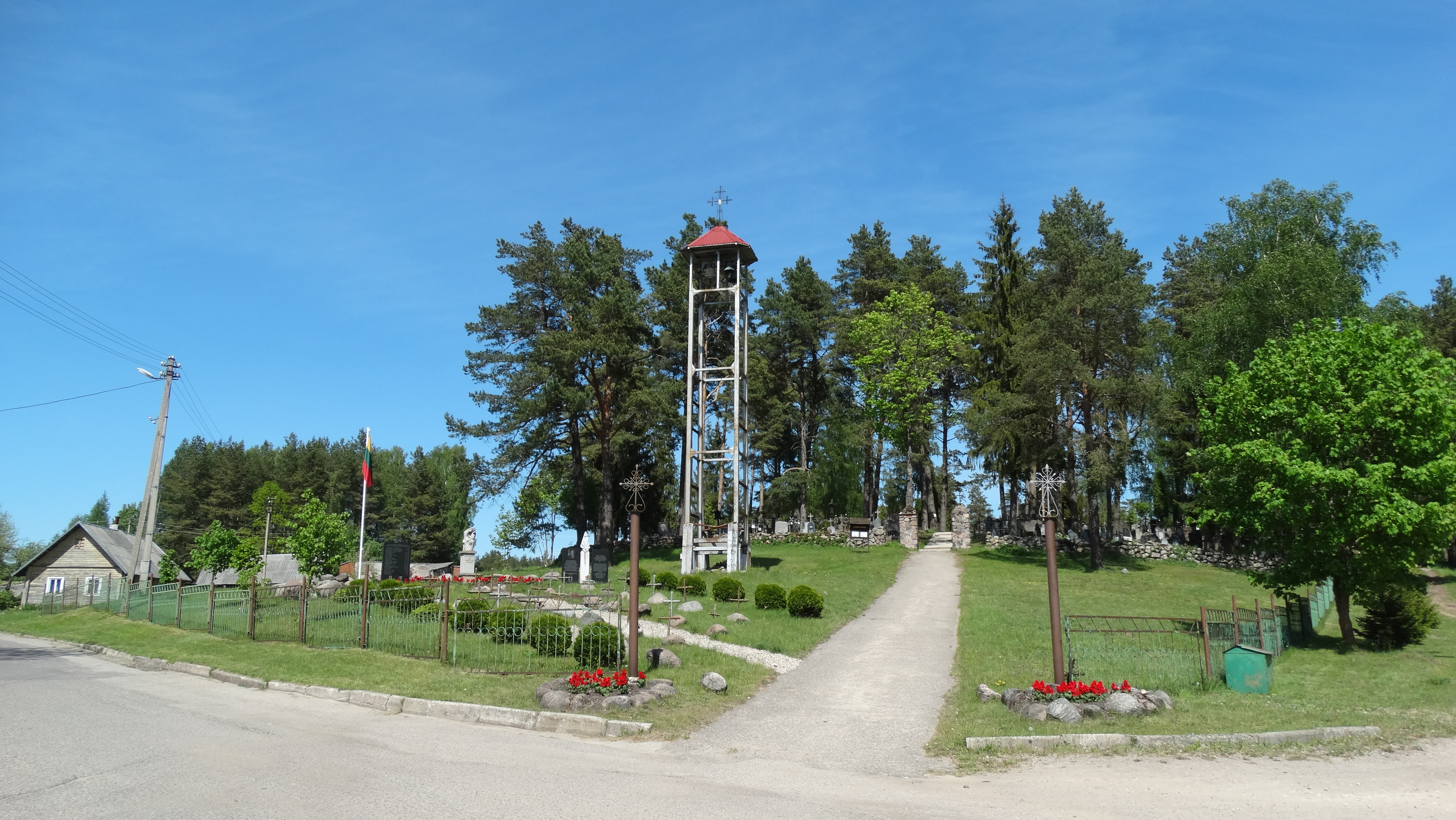 Ceikiniai, Ignalina district, Lithuania